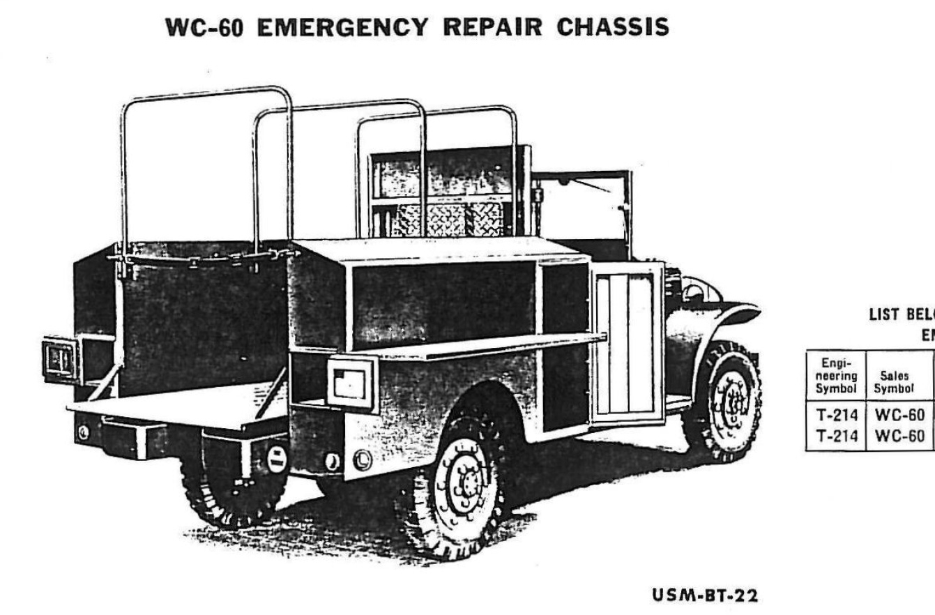 Dodge WC-60 Emergency Repair Chassis, M2 (engineering code T-214; body type code USM-BT-22)